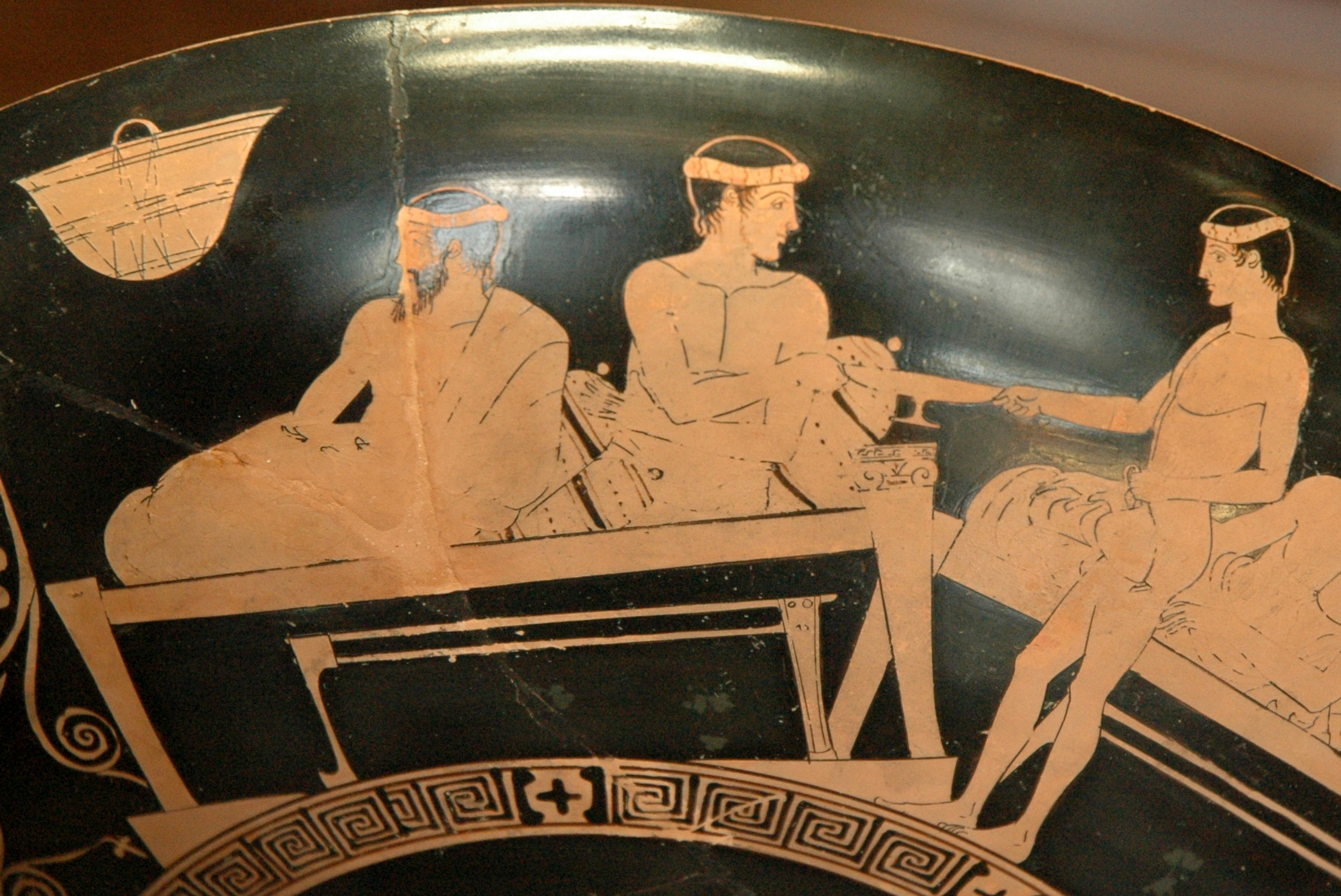 Boy serving wine in a banquet, holding an oenochoe (wine jug) in his right hand and a kylix (shallow cup) in his left hand. Side A from and Attic red-figure kylix, ca. 460-450 BC.